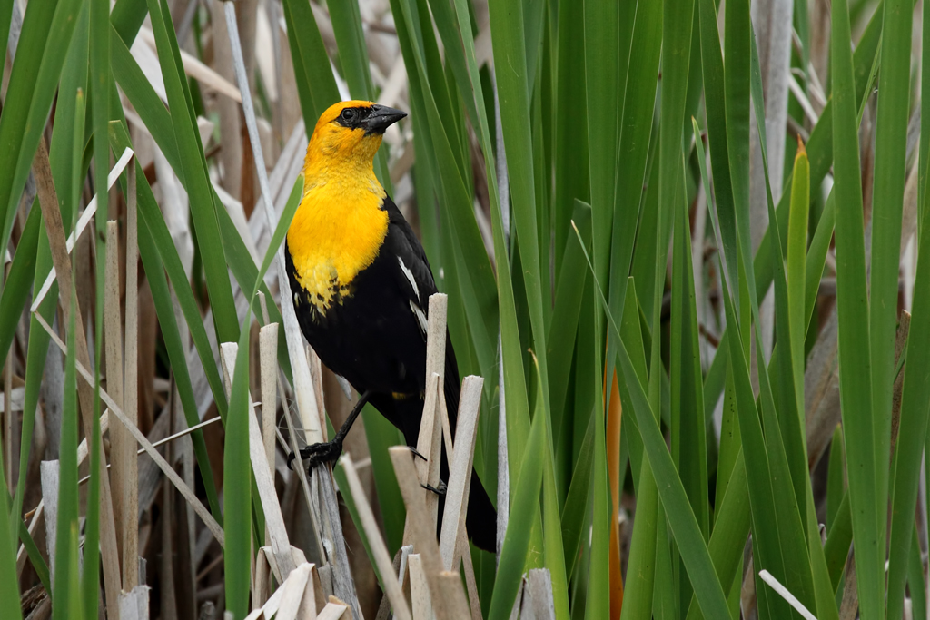 A male Yellow-headed Blackbird at 100 Mile House, South Cariboo, British Columbia, Canada.